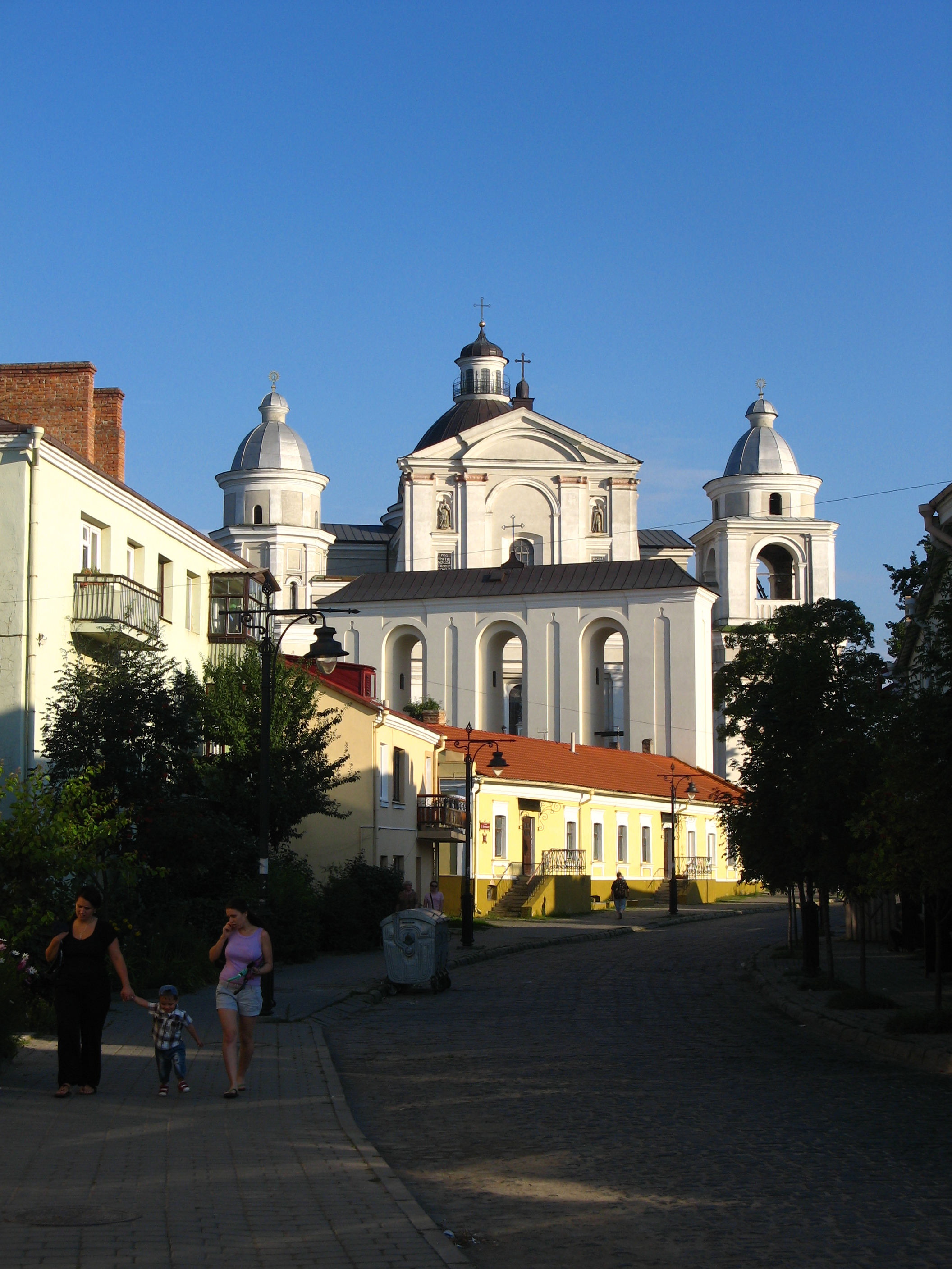 Church in Łuck.